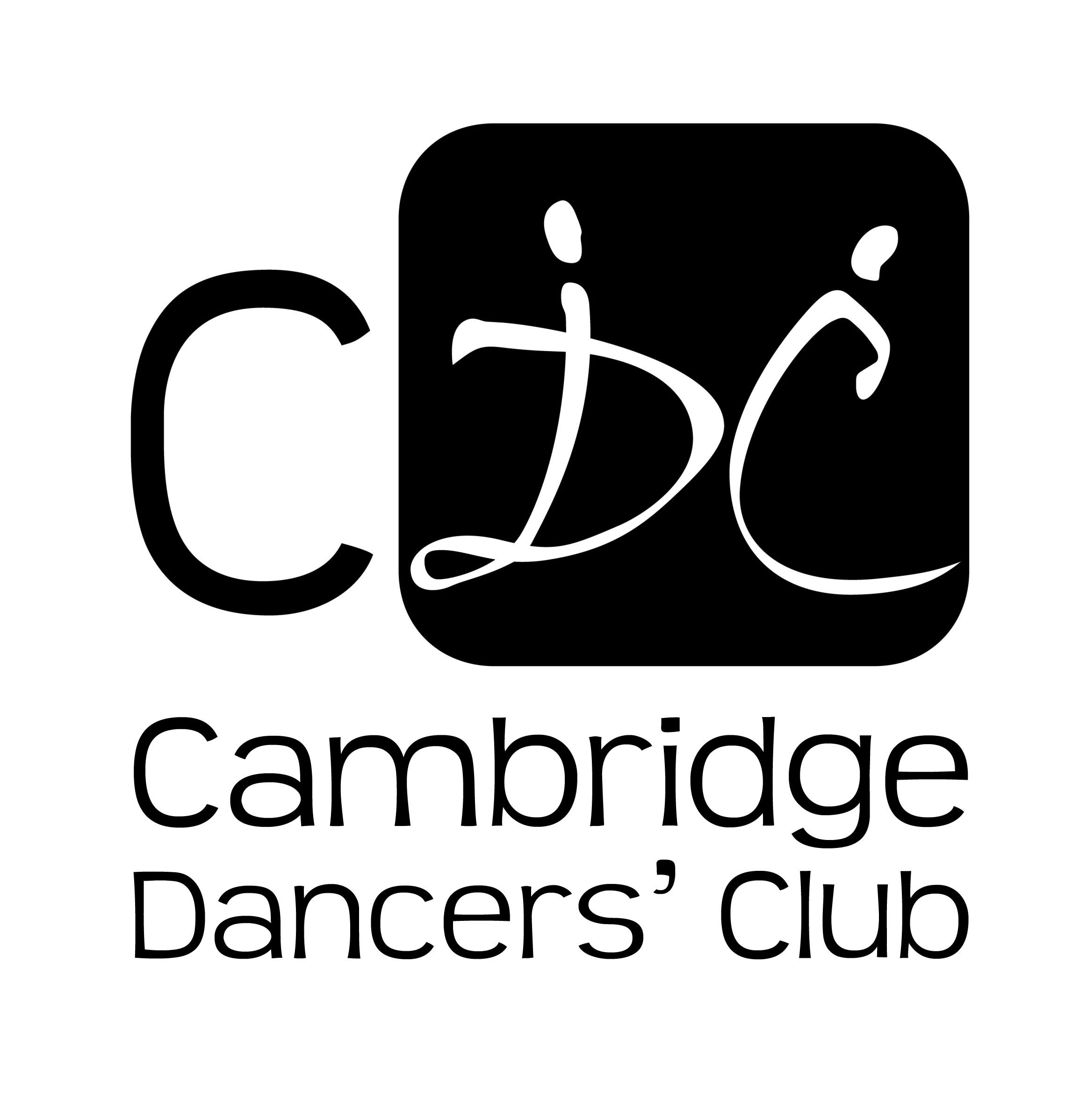 Cambridge Dancers' Club Logo